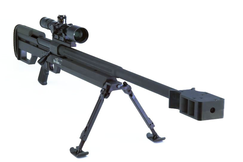 A Steyr HS .50 with a scope.